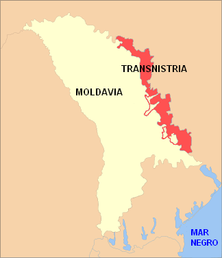 Transnistria map